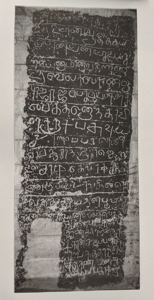 Velgam Vihara Tamil inscriptions, 11th century AD